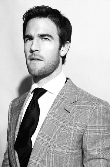 Image is of James Van Der Beek, American television, film, and stage actor. This image was taken in SanSierra Studio, New York, NY, US.